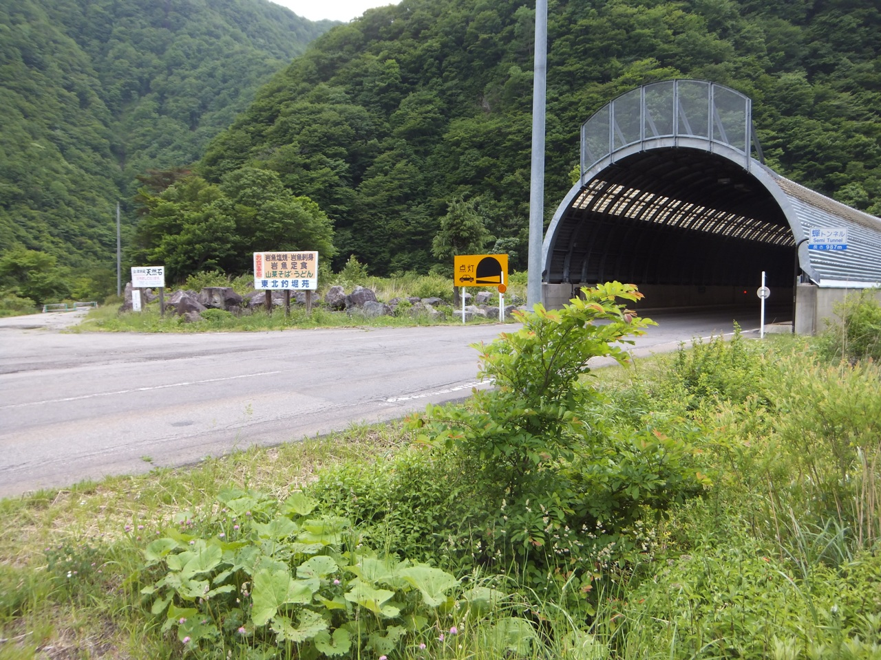 Semi-tunnel (right side),Old road (left side)